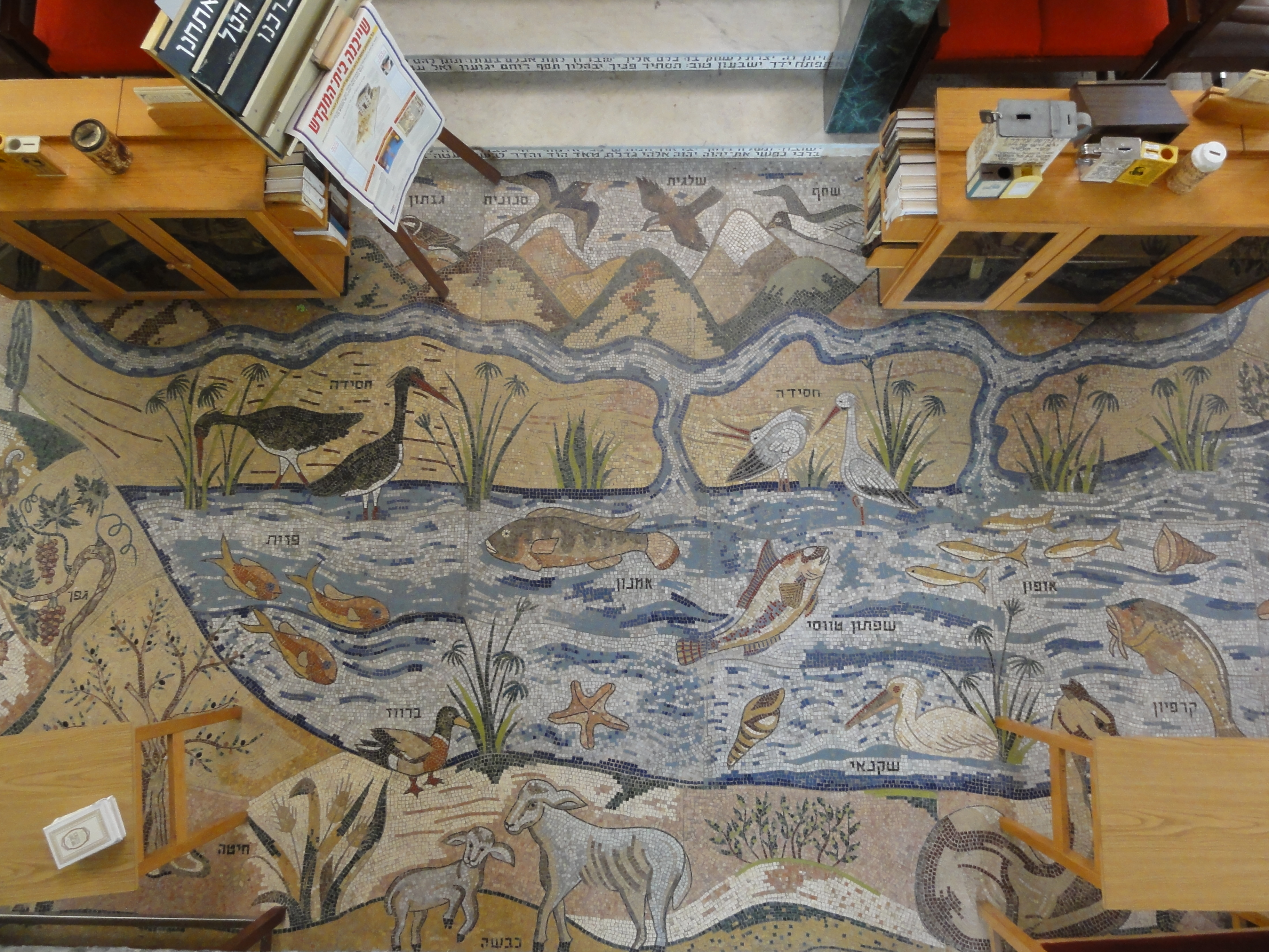 mosaics in the Or Torah Synagogue, Israel Info GPS data may be inaccurate. EXIF data regarding date and time may be inaccurate.